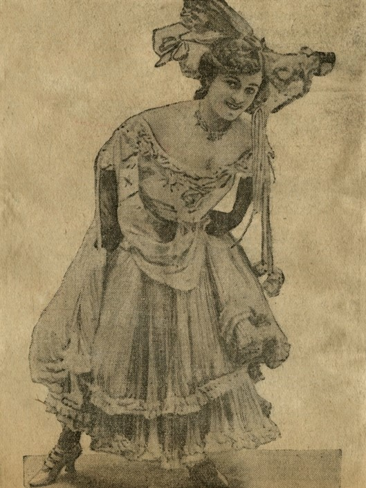 May Boley in the musical The Hurdy-Gurdy Girl (Boston & Broadway) - publicity still (cropped)